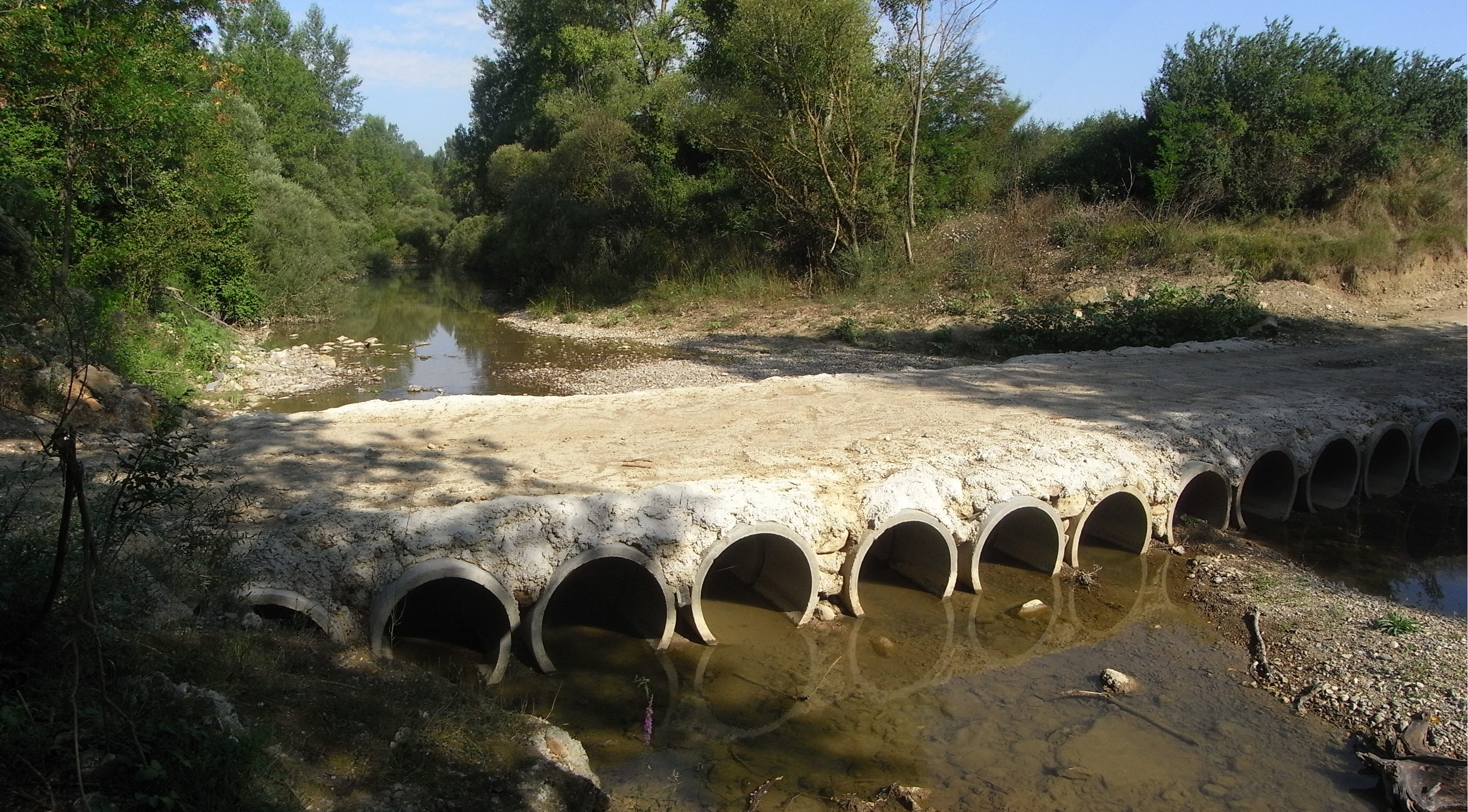 Crossing of river Feccia between San Galgano and Pentolina